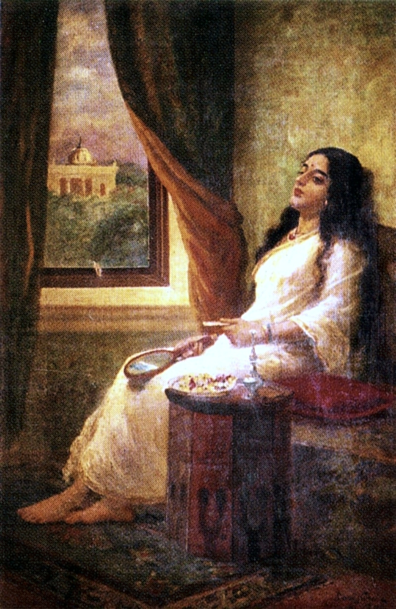 A lady in deep thoughts.